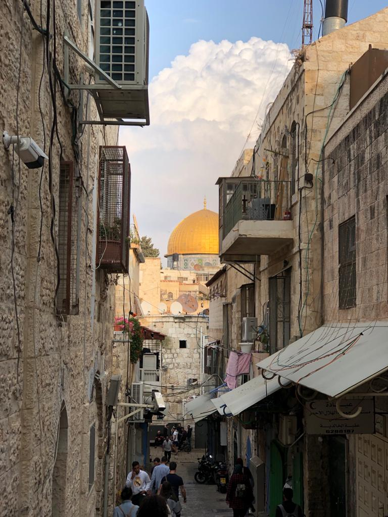 Old Jerusalem, Al-Khalidiyya ascent